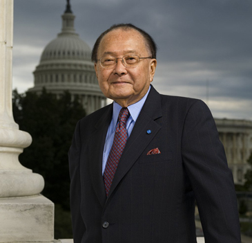 Daniel Inouye, senator from Hawaii